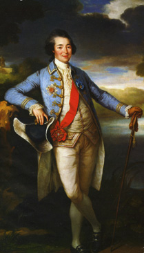 Alexander Kurakin, in Paris' higher circles, famously referred to as a "diamond prince"